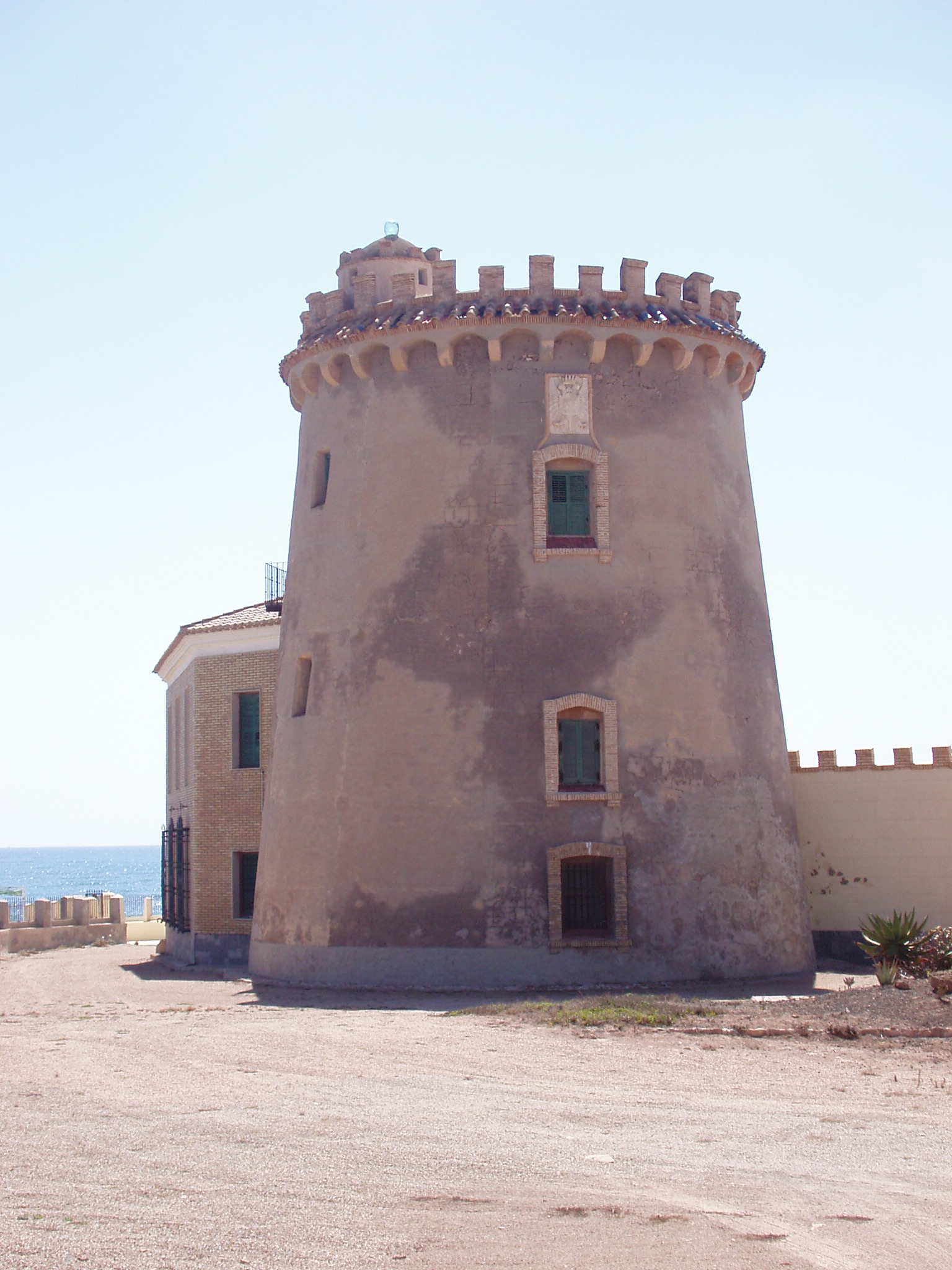 Torre de la Horadada watchtower (September 2007)